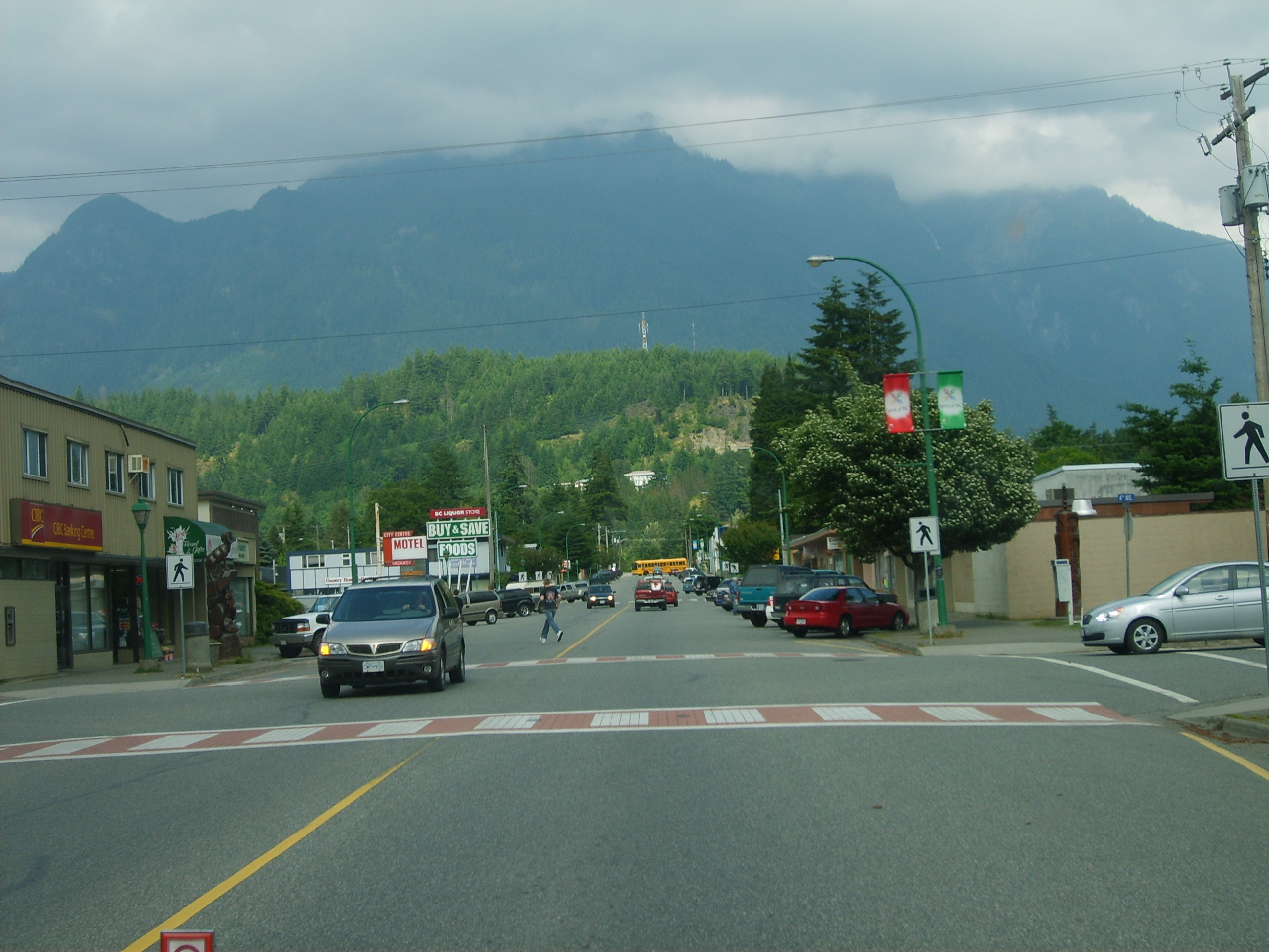 Downtown Hope, British Columbia, Canada.